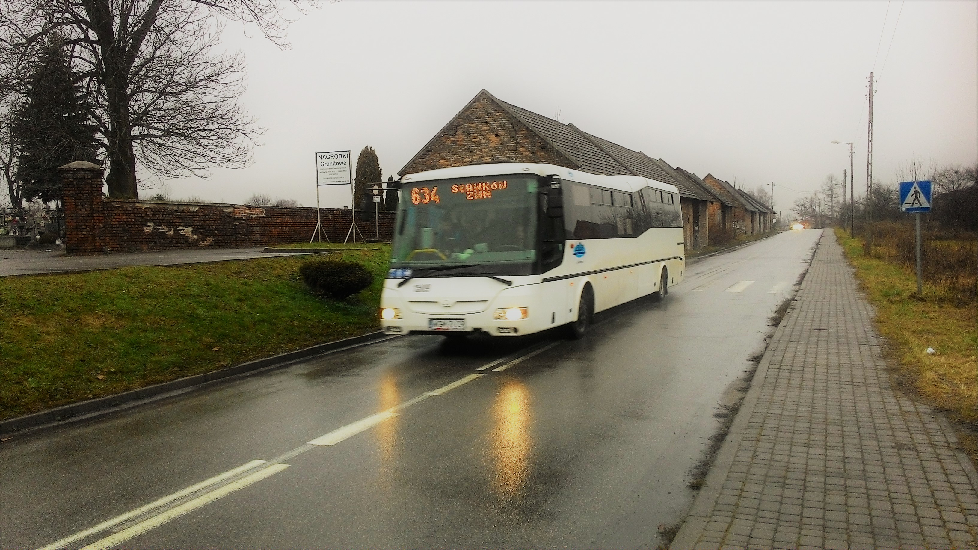 634 bus (type SOR BN 12) from Dąbrowa Górnicza to Sławków on Świetojanska Street in Sławków.